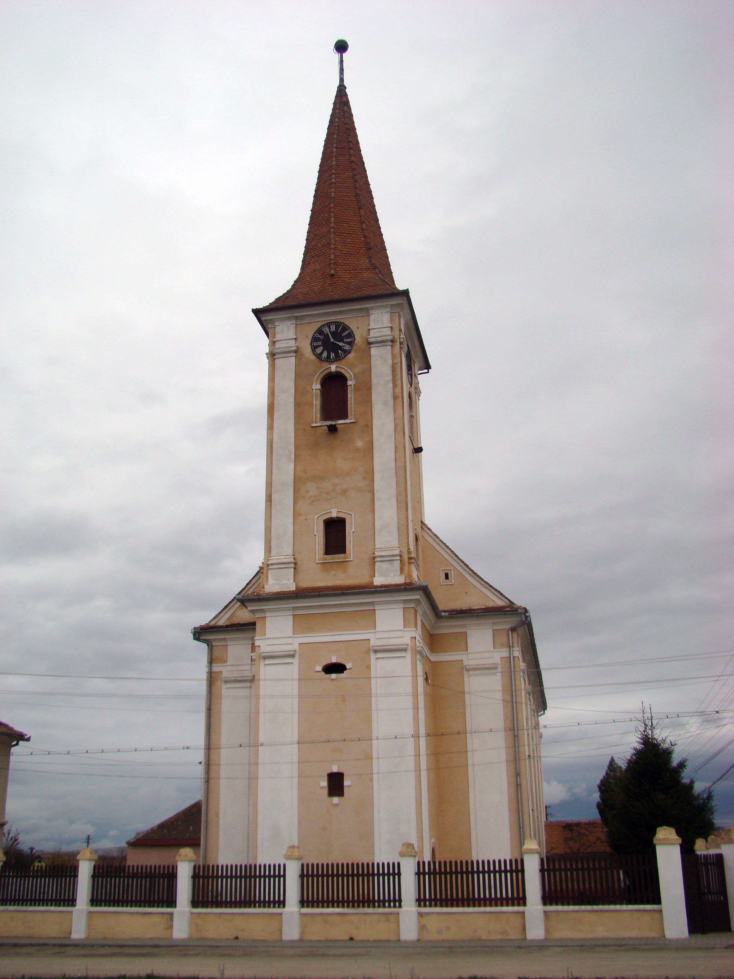 Lutheran Church in Petreşti (Petersdorf), Alba County, Romania